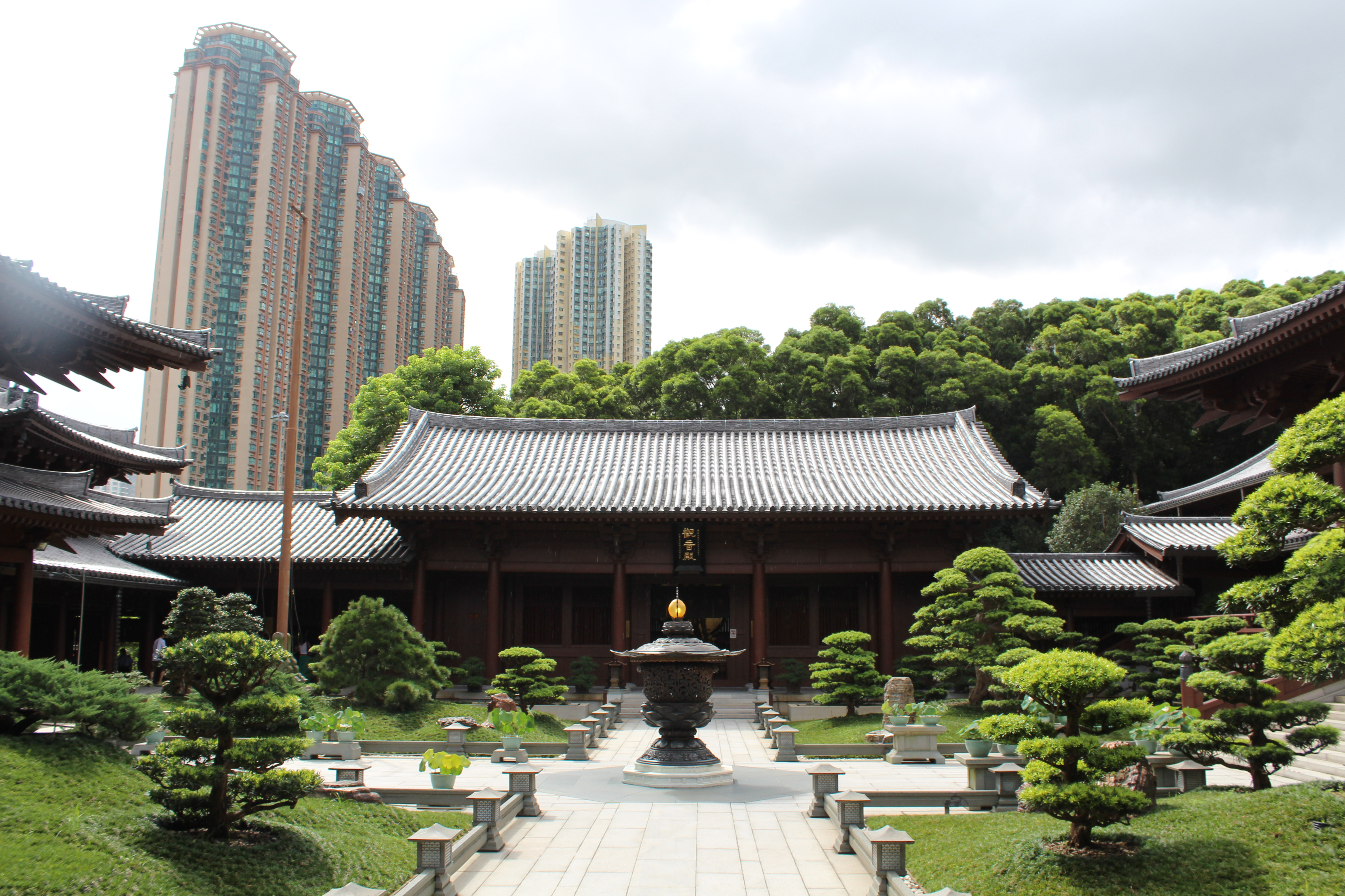 Chi Lin Nunnery, Hong Kong